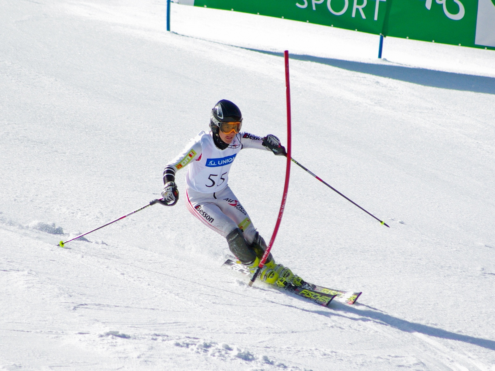 Austrian alpine skier Roland Leitinger in the second Slalom run at the Austrian Alpine Ski Championships 2008 in Haus im Ennstal.